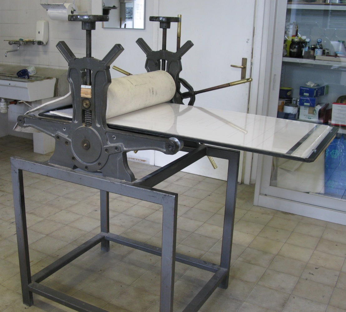 Copperplate press; copperplate printing press; rolling press.